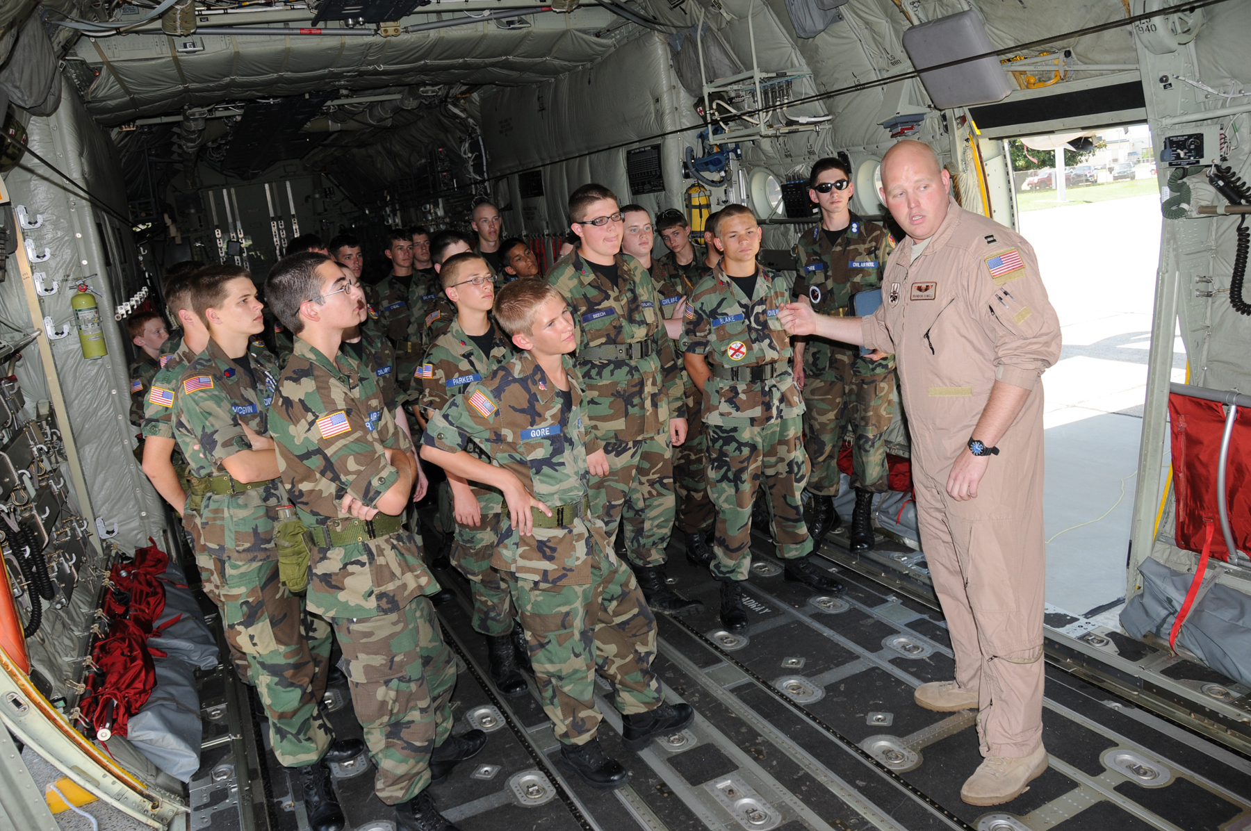 Capt. Brandon Cowell, right, 815th Airlift Squadron, gives a tour of a C-130J model aircraft to a group of Mississippi Civil Air Patrol cadets June 23. Brig. Gen. Ian Dickinson, 81st Training Wing commander, welcomed the group of more than 130 cadets during their annual tour of Keesler. General Dickinson reflected on his experience and involvement in the Civil Air Patrol and encouraged the cadets to take the CAP challenge as an great opportunity to excel. The cadets also toured the 81st Medical Group Hospital, the air traffic control school and the fire station. (U.S. Air Force photo by Kemberly Groue)